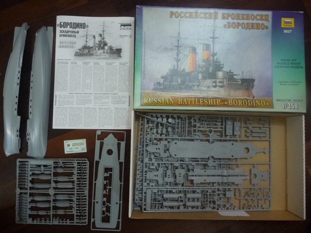 borodino kit